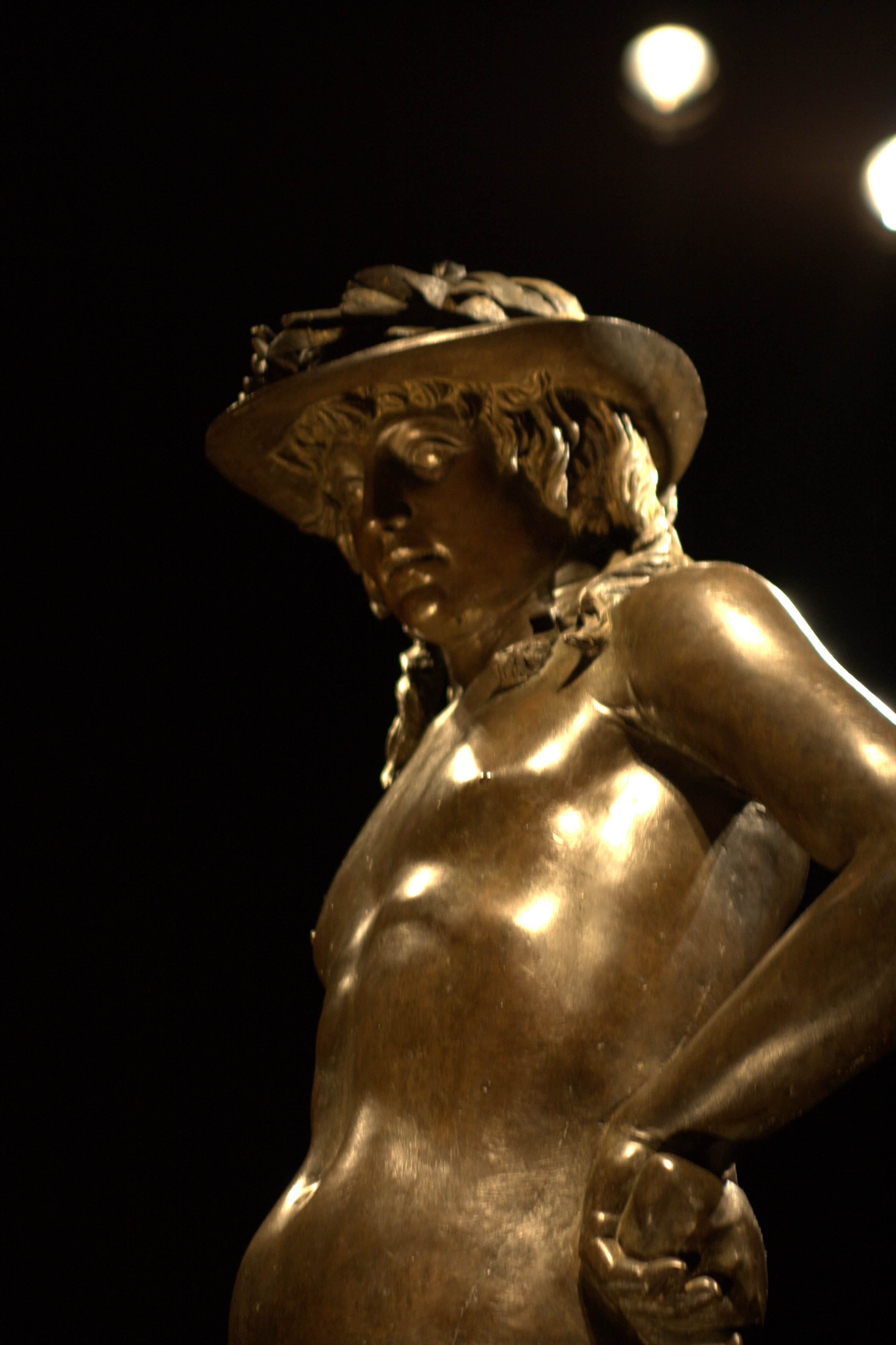 see abovesee above